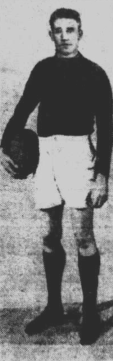 Caption: "SNOWY" ATKINSON, Fitzroy's consistent defender.